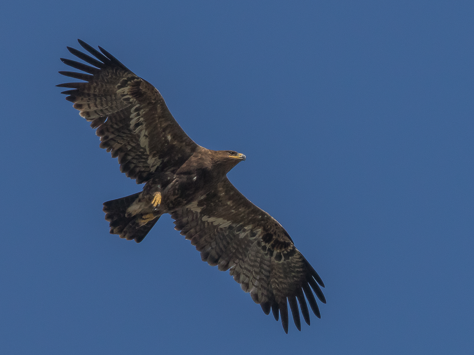 This is an image of the Biosphere Reserve or a Geopark: Astrakhan Nature Reserve